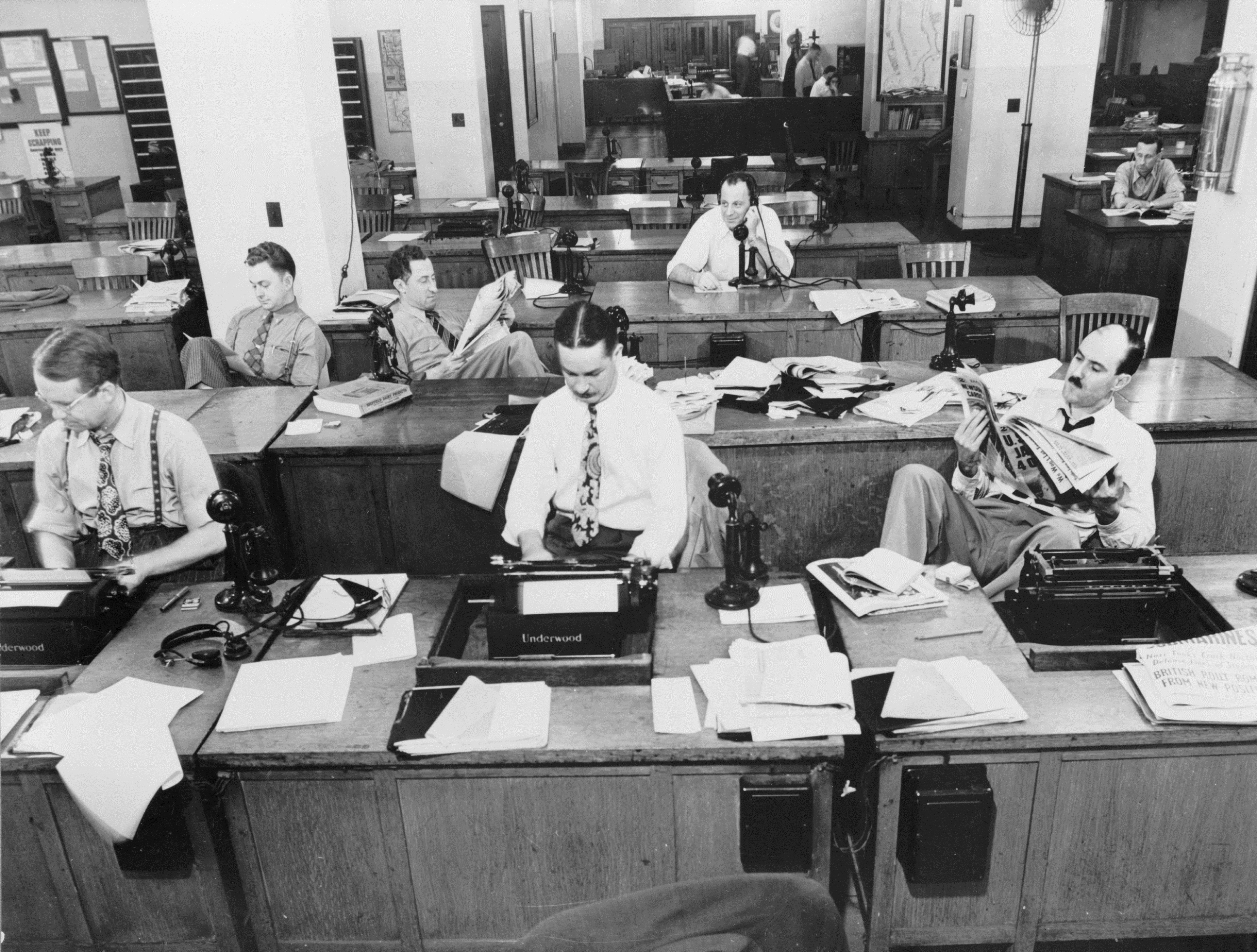 New York, New York. Newsroom of the New York Times newspaper. Reporters and rewrite men writing stories, and waiting to be sent out. Rewrite man in background gets the story on the phone from reporter outside.